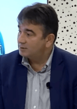 Nebojša Medojević, Montenegrin politician